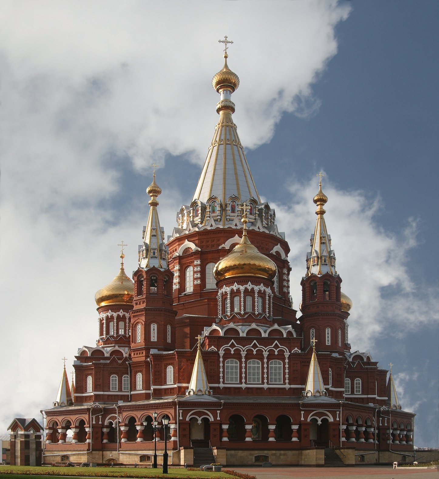 Description: The Svyato Mihailovsky Cathedral in Ischewsk, Republic of Udmurtia in Russia